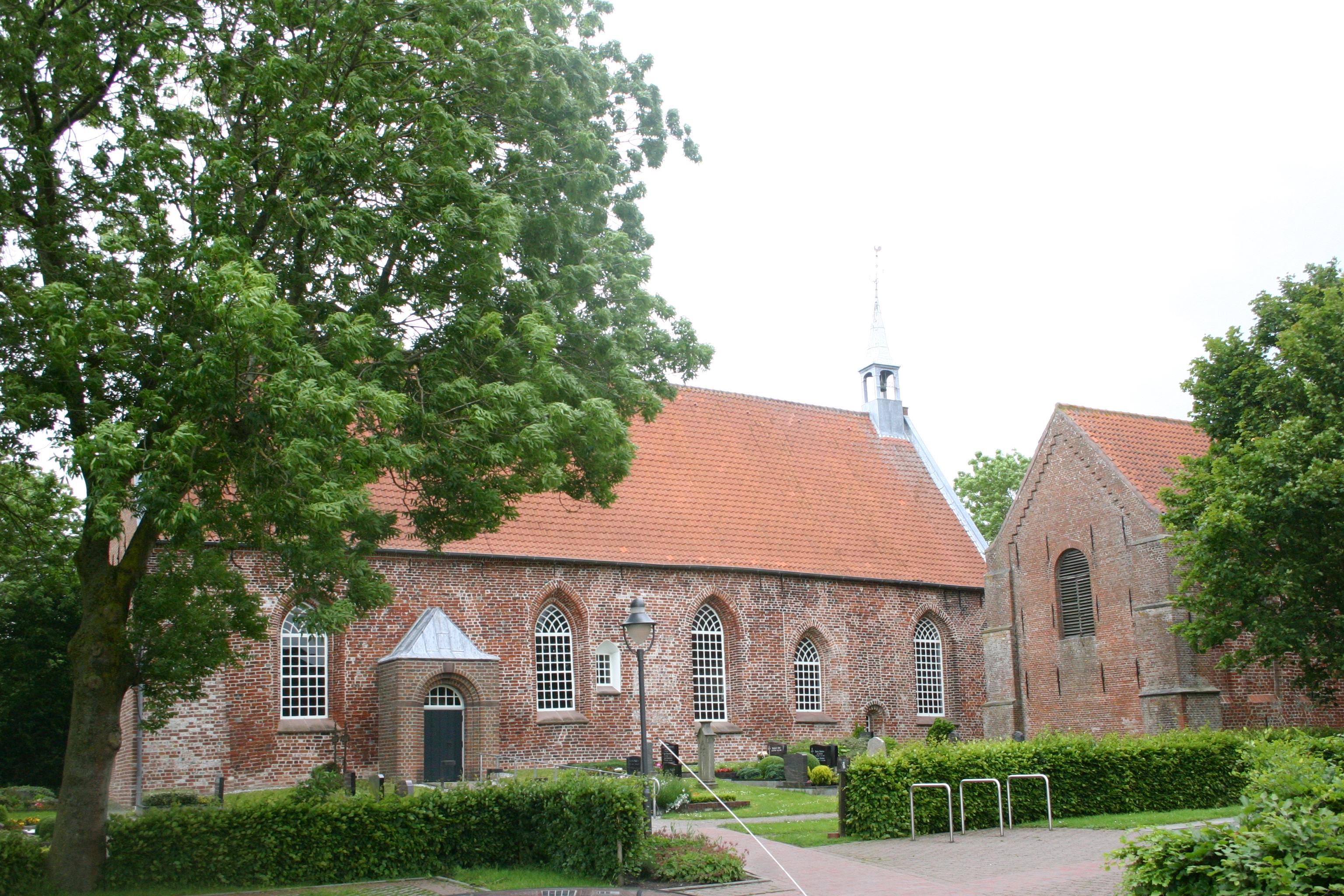 Historic church in Westerhusen, district of Aurich, East Frisia, Germany